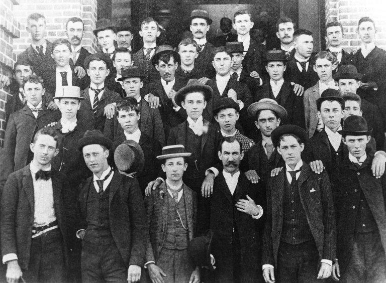 Title:First freshman class at North Carolina College of Agriculture and Mechanic Arts. Date:1889. Classification Number:- UA023.24.050 Classification Group:People. Class pictures and student portraits, 1890s-1900s Item Number:0004707 Subjects:- Firsts - Students - North Carolina State University -- People Geographic Location:United States -- North Carolina -- Wake County -- Raleigh Time Period:1880s Genre:- Group portraits Source of Title:Devised by cataloger. General Notes:From a copy of the original photograph. Original available in University Archives Photograph Collection.; Copy negative no. 6. Published in:North Carolina State University : a pictorial history / by Murray Scott Downs and Burton F. Beers. [Raleigh] : North Carolina State University Alumni Association, c1986. Medium:1 photographic print : b&w ; 8 x 10 in. Digital format:image/tiff Technical information:Scanned by NCSU Libraries Digital Media Lab; 12-May-2004; 1200 dpi; 8-bit; grayscale; Mac OS X operating system with an Epson Perfection 3200 PHOTO Scanner. Part of:University Archives Photograph Collection Repository:North Carolina State University Special Collections Research Center Raleigh, NC